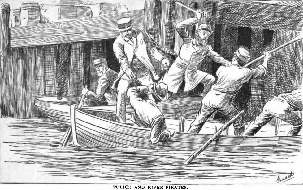 "New York City Police Battle With River Pirates" Illustration Cropped Image